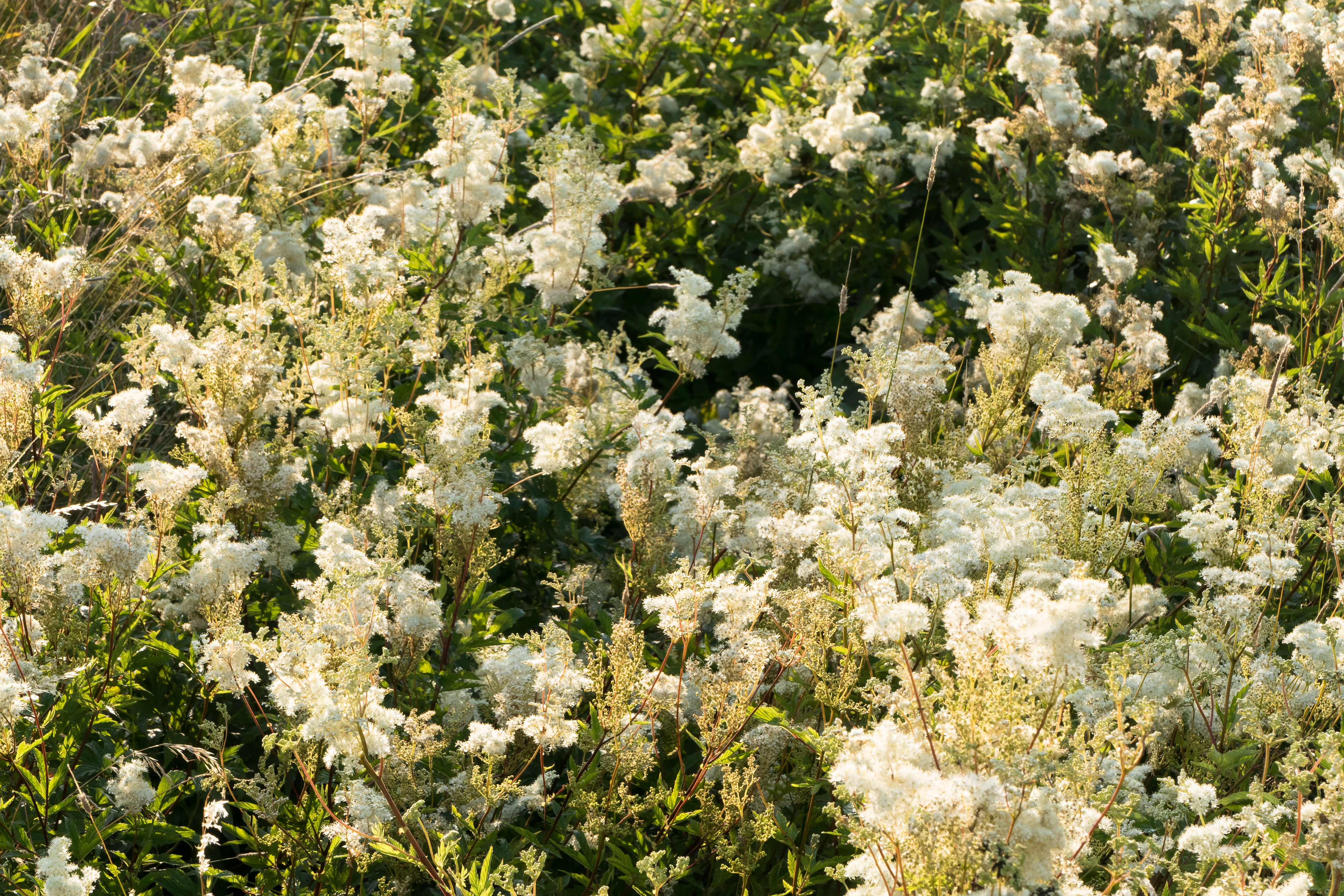 Meadowsweet (Filipendula ulmaria) and dry grass in the setting sun at Öhed, Brastad, Sweden.